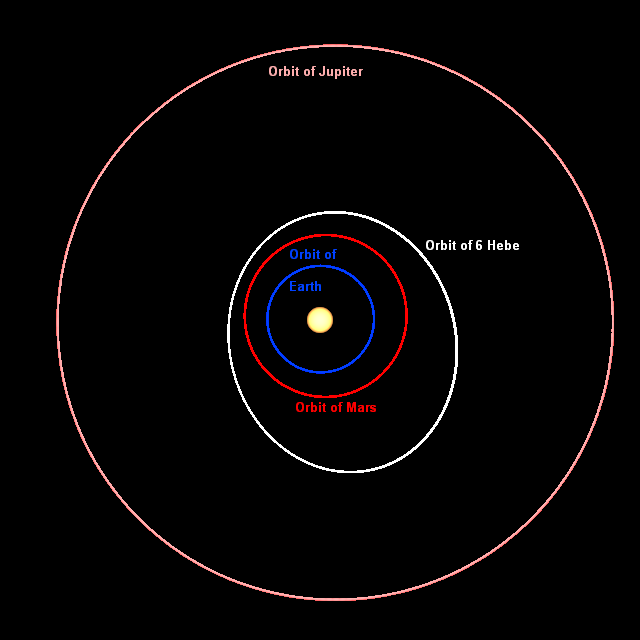 The orbit of the asteroid 6 Hebe compared with the orbits of Earth, Mars and Jupiter